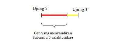 enzim beta-galaktosidase yang hanya mengandung subunit alfa